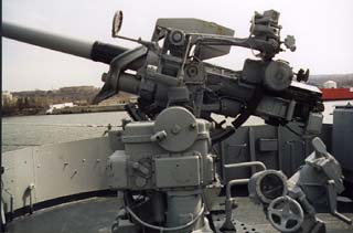 3"/50cal Deck gun image from the USS Slater